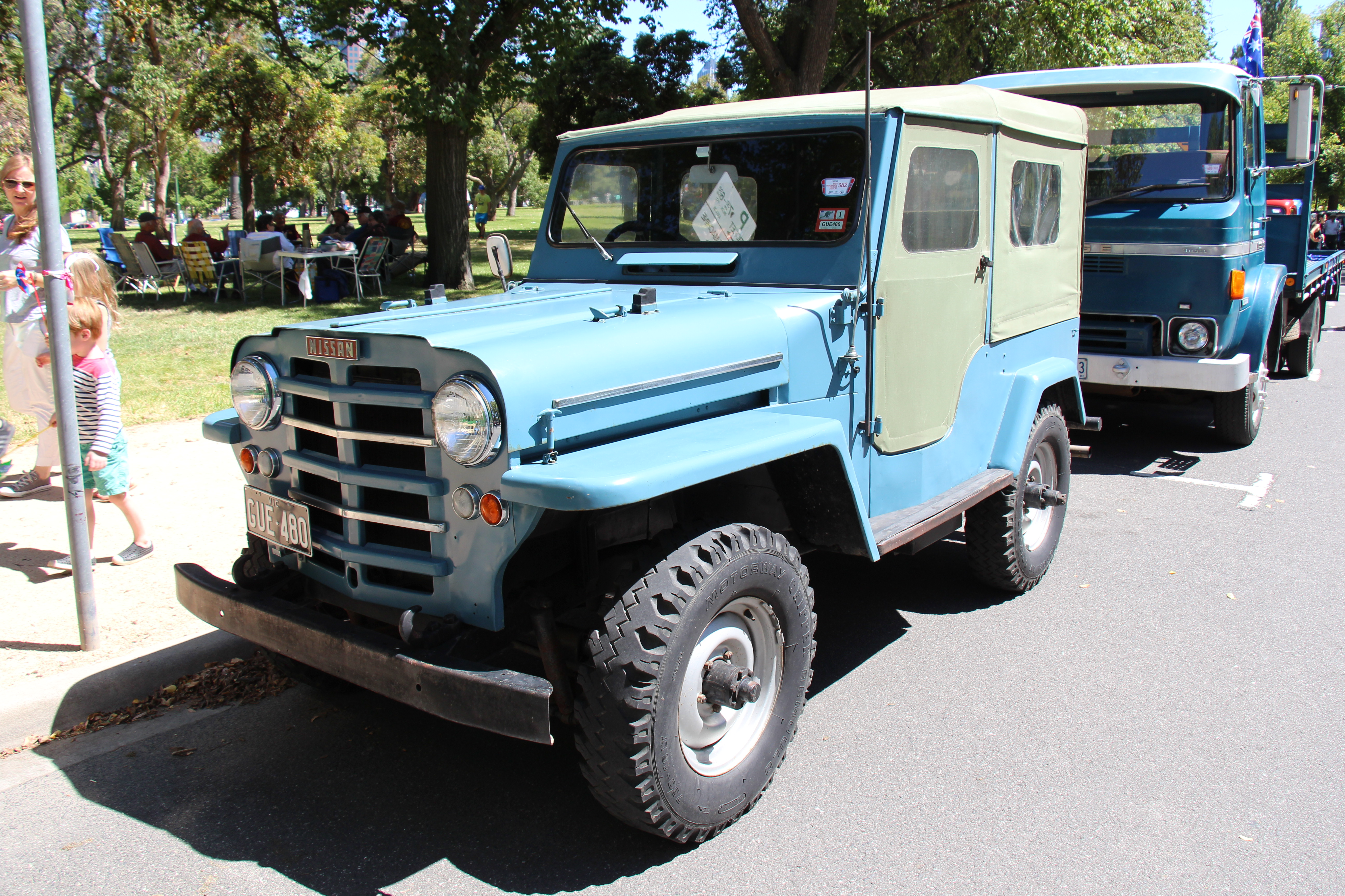 The 1st generation of the mighty Nissan Patrol. The 4W60, with a similar look to the Willys Jeep, was introduced in 1951. It had the 3700 litre NAK Nissan Bus engine. The update in 1955, the 4W61 got the better NB engine, still 3700 litre, some chrome bars in the grille, a 1 piece windshield and chrome strips on the hood. The 2nd update in 1958 got redesigned front fenders and hood and all bars in the grille were chrome, Patrol badges on the side of the hood, a 4.0 litre in 1959. Replaced by the G60 series in 1960